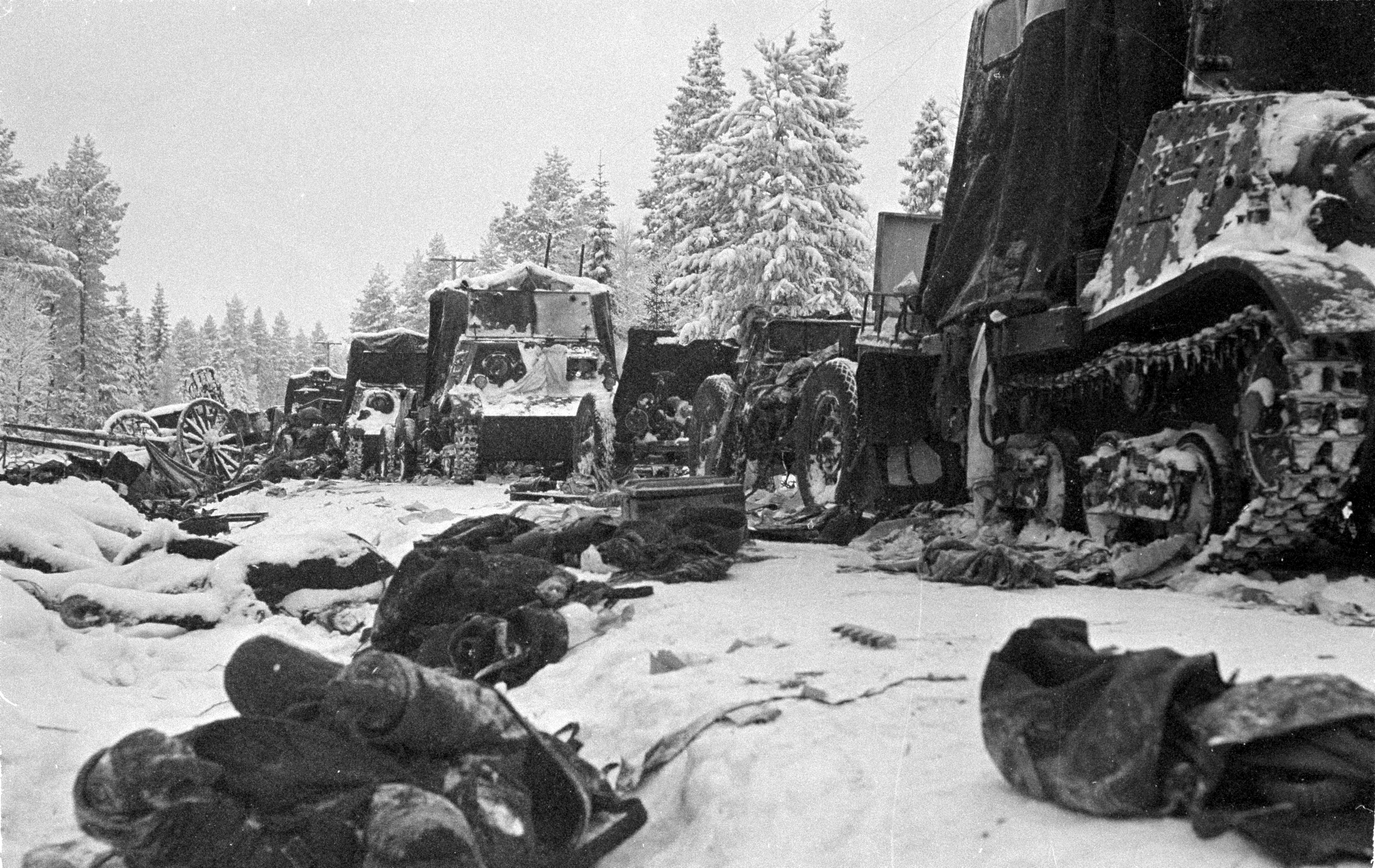 Soviet equipment and fallen soldiers at Raate Road, Suomussalmi